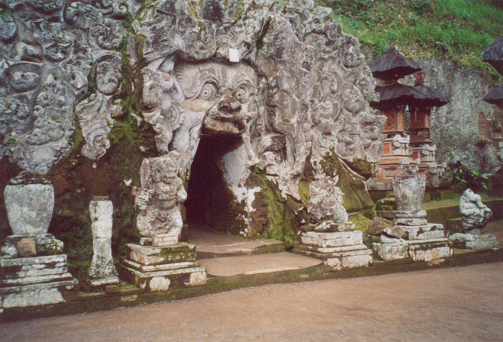 Entrance of Goa Gajah, the elephant cave (near Ubud, Bali)